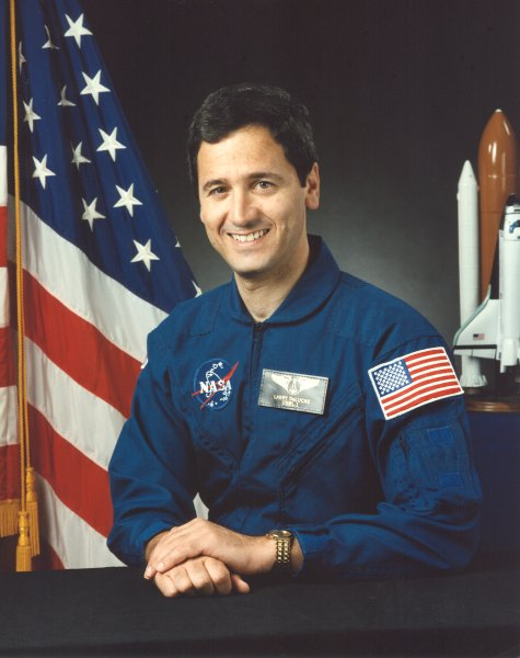 portrait astronaut Lawrence DeLucas